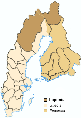 Map Swedish Provinces, Lappland.